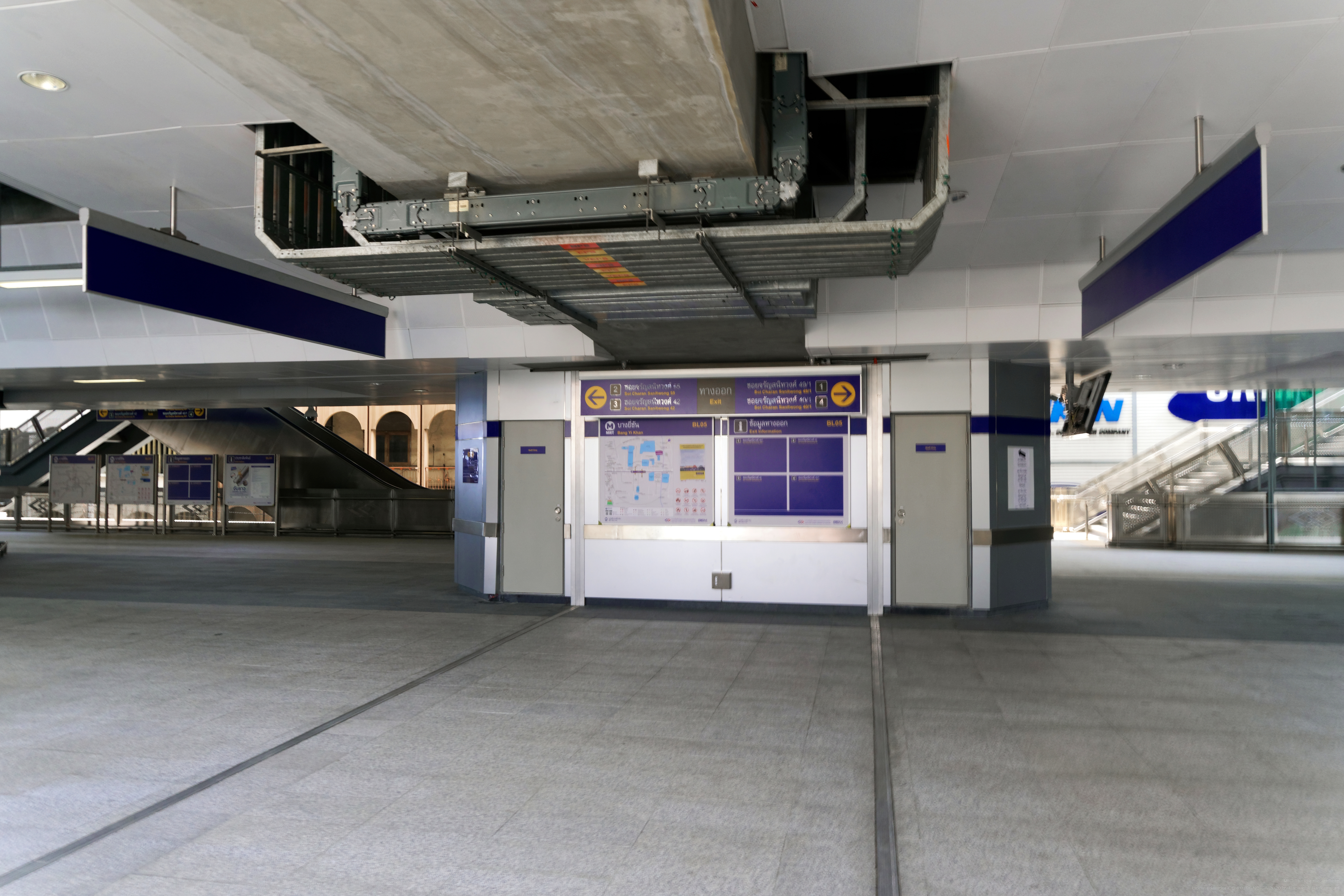 MRT Bang Yi Khan – Ticket office floor